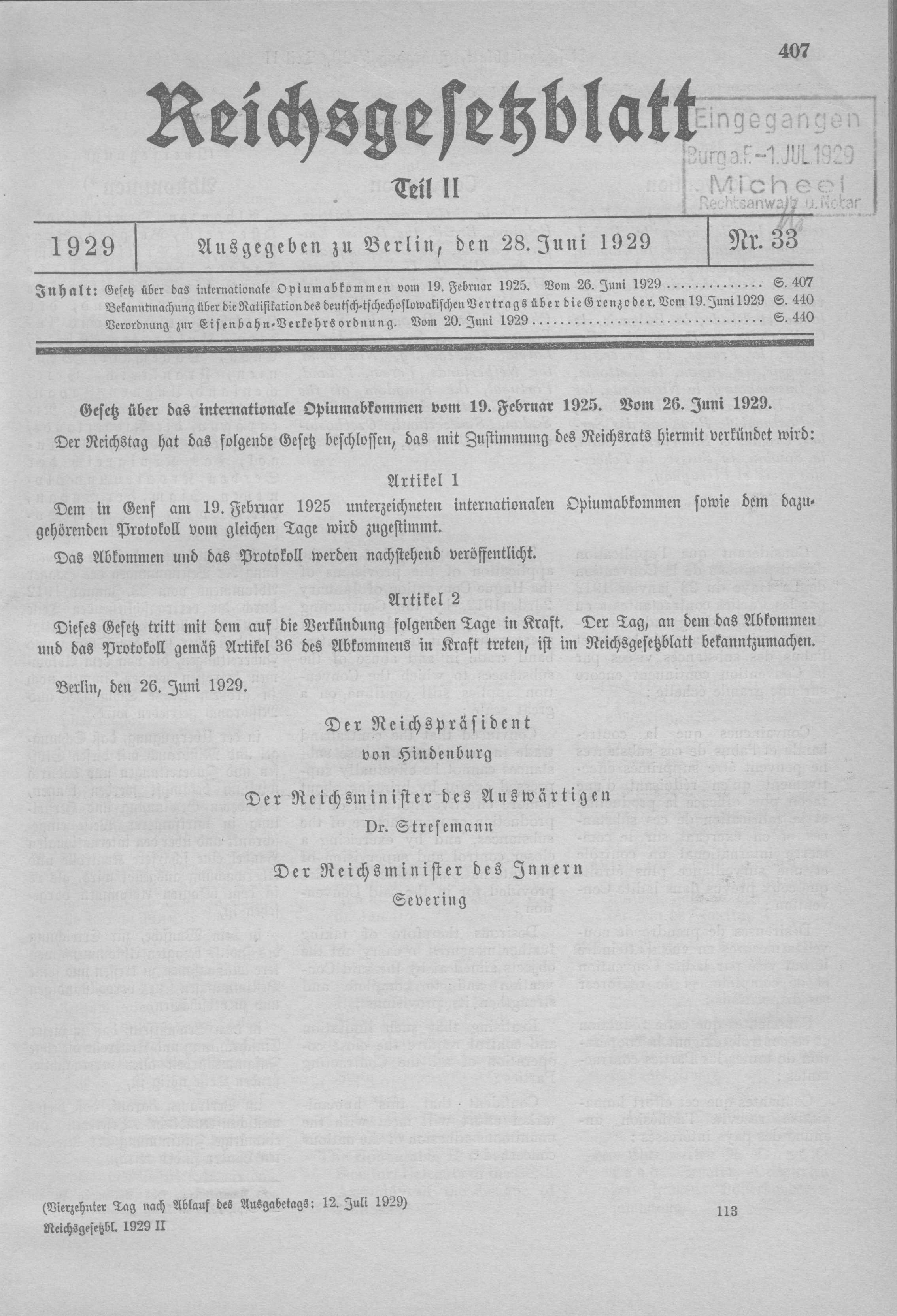 Scan from the Imperial Law Gazette of Germany, 1929, part 2